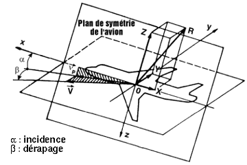 Angle of Drift & Angle of Attack definitions